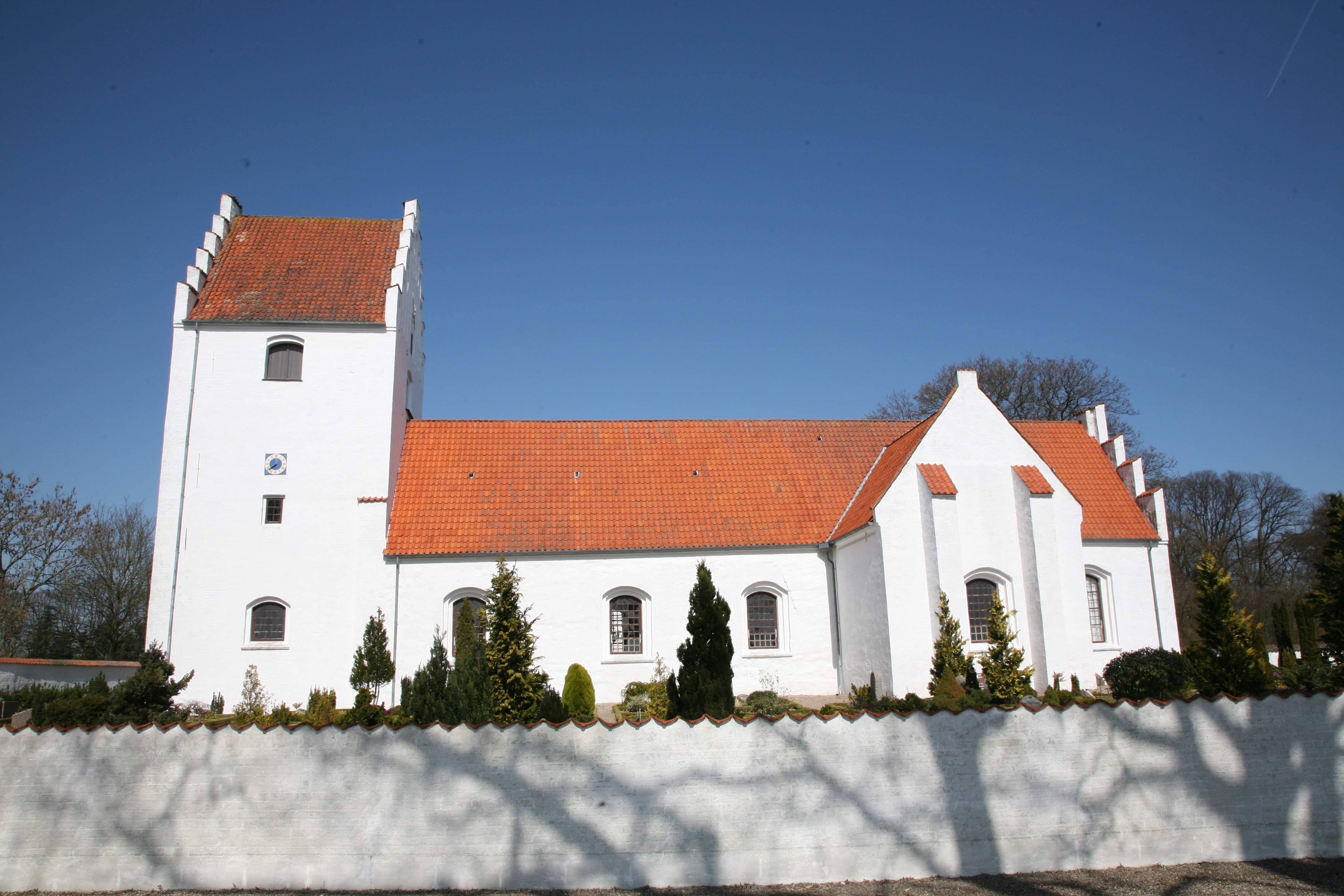 Fyrendal church in Denmark